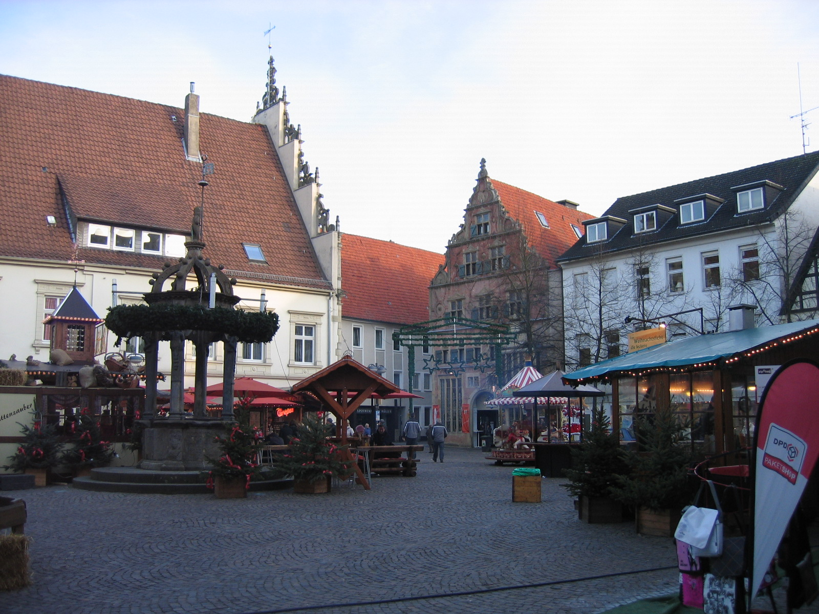 Christmas market in Herford, District of Herford, North Rhine-Westphalia, Germany.